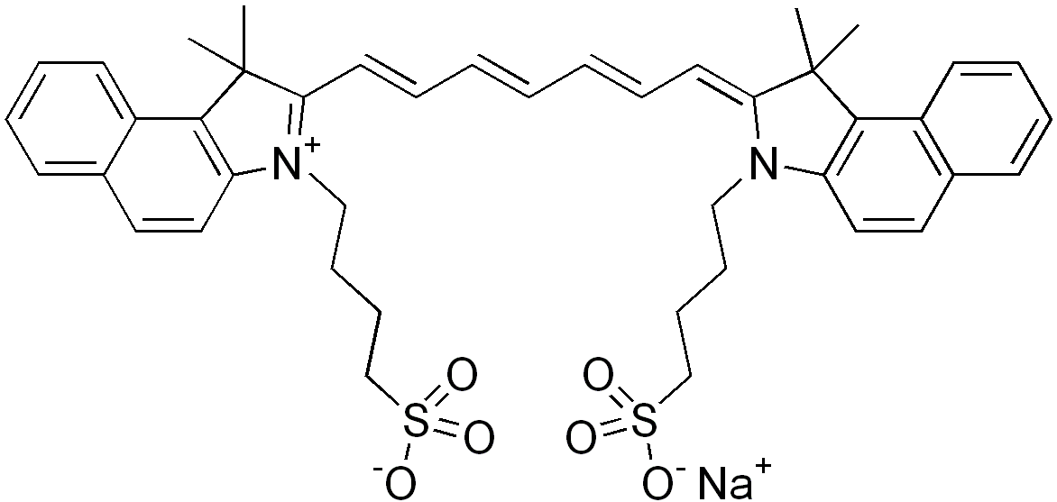 chemical structure of indocyanine green (ICG, cardiogreen, fox green)